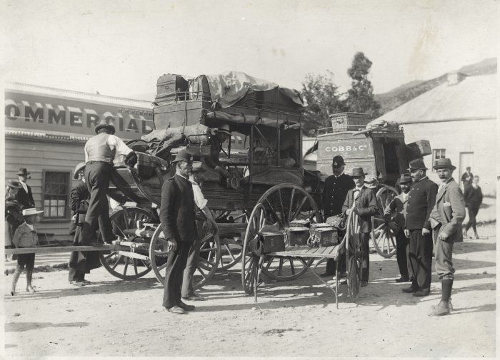 The last Central Otago gold escort, changing horses at Roxburgh. The driver, Jimmie Dungay, stands on the pole of the well laden coach. The escort team is made up of policemen and Bank of New Zealand staff. The police, from left to right, are: Constable Charlie Bonar (Bonner), Constable Fuohy and Sergeant Beaumont. The Bank of New Zealand staff include Duncan MacGregor in the coach and L B Haines who is standing by the truck. Next to him is James Pearce and on the right is T E Corkill. Taken by J H Ingley in 1901.